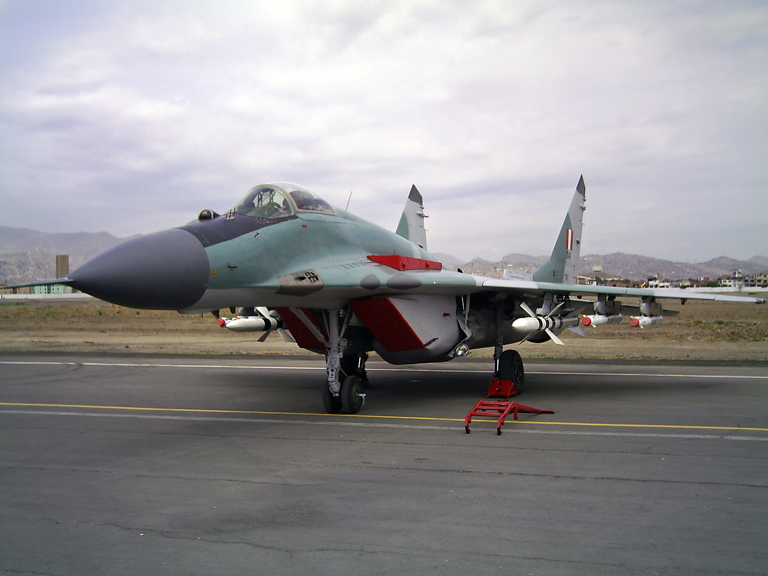 Peruvian MiG-29SE on display at "Halcon-Condor 2007" festival - Las Palmas Airbase.